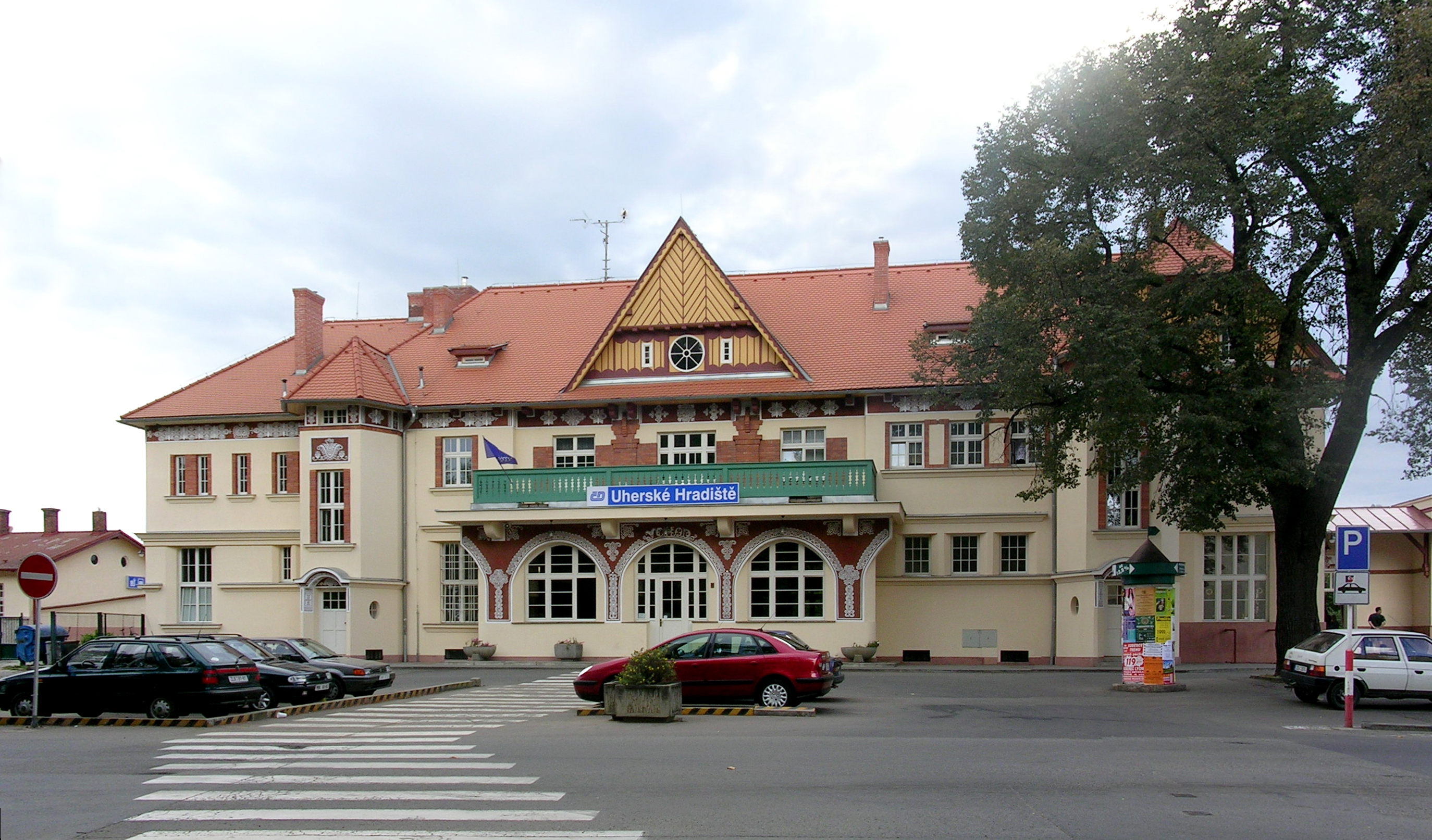 Uherské Hradiště, train station.